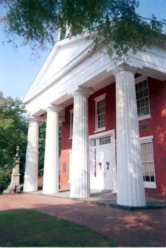 Brunswick County Courthouse, Lawrenceville, (Brunswick County, Virginia) This image or file is a work of a United States Department of Agriculture employee, taken or made as part of that person's official duties. As a work of the U.S. federal government, the image is in the public domain. Object location36° 45′ 30″ N, 77° 50′ 49″ W